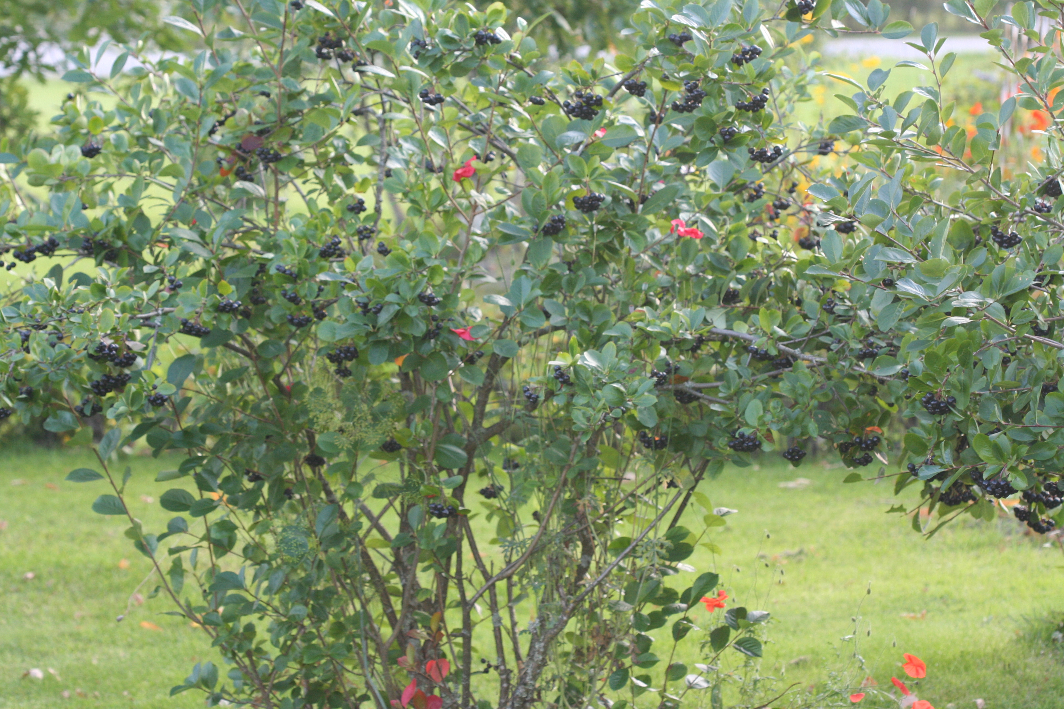 Aronia mitschurinii bush carrying berries